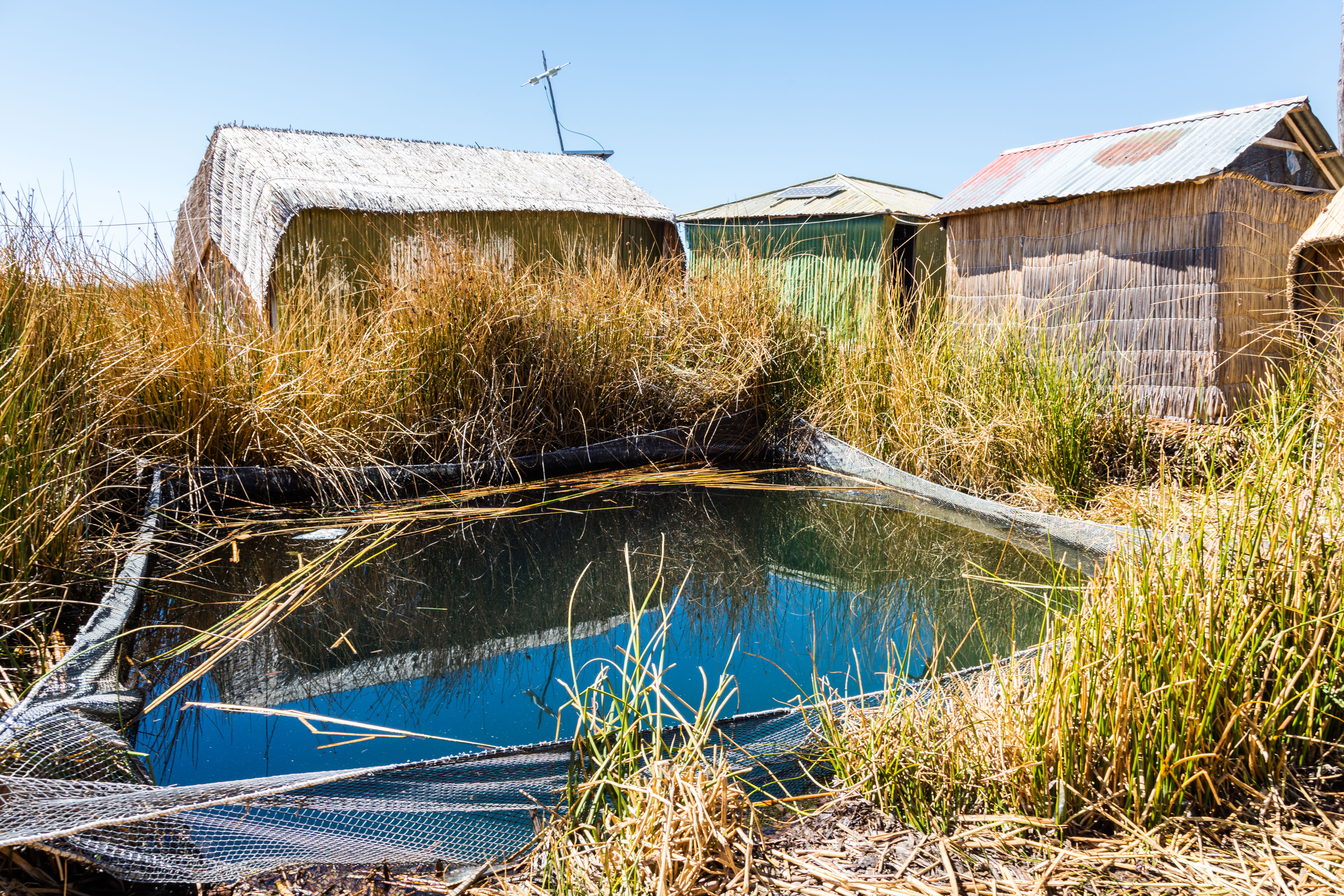 Uros floating islands, Titicaca Lake, Peru